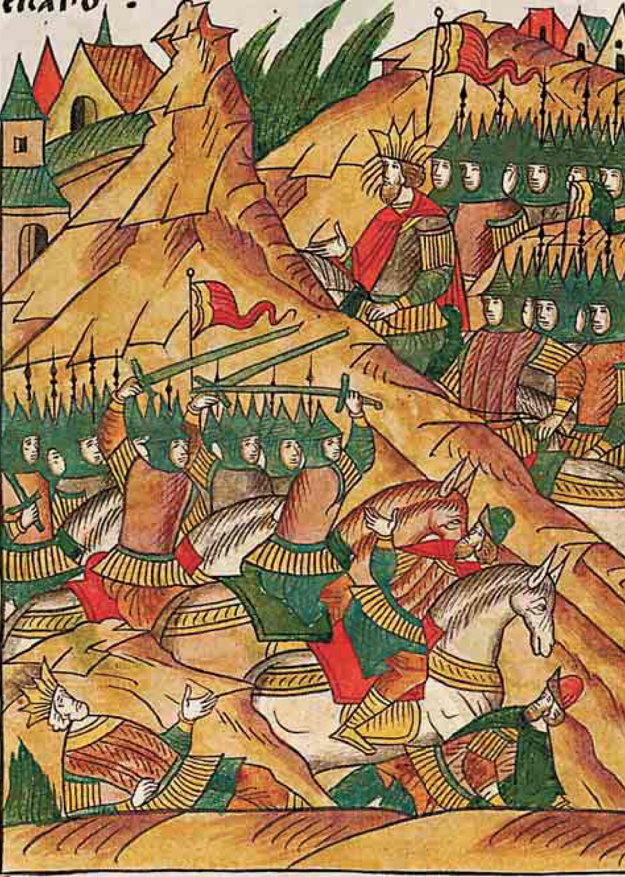 Illustrated Chronicle of Ivan the Terrible, book 11, death of Milos Obilic